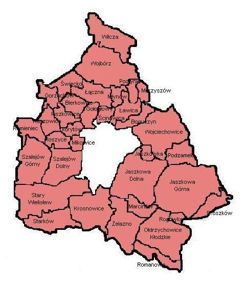 Municipality Klodzko administrative division